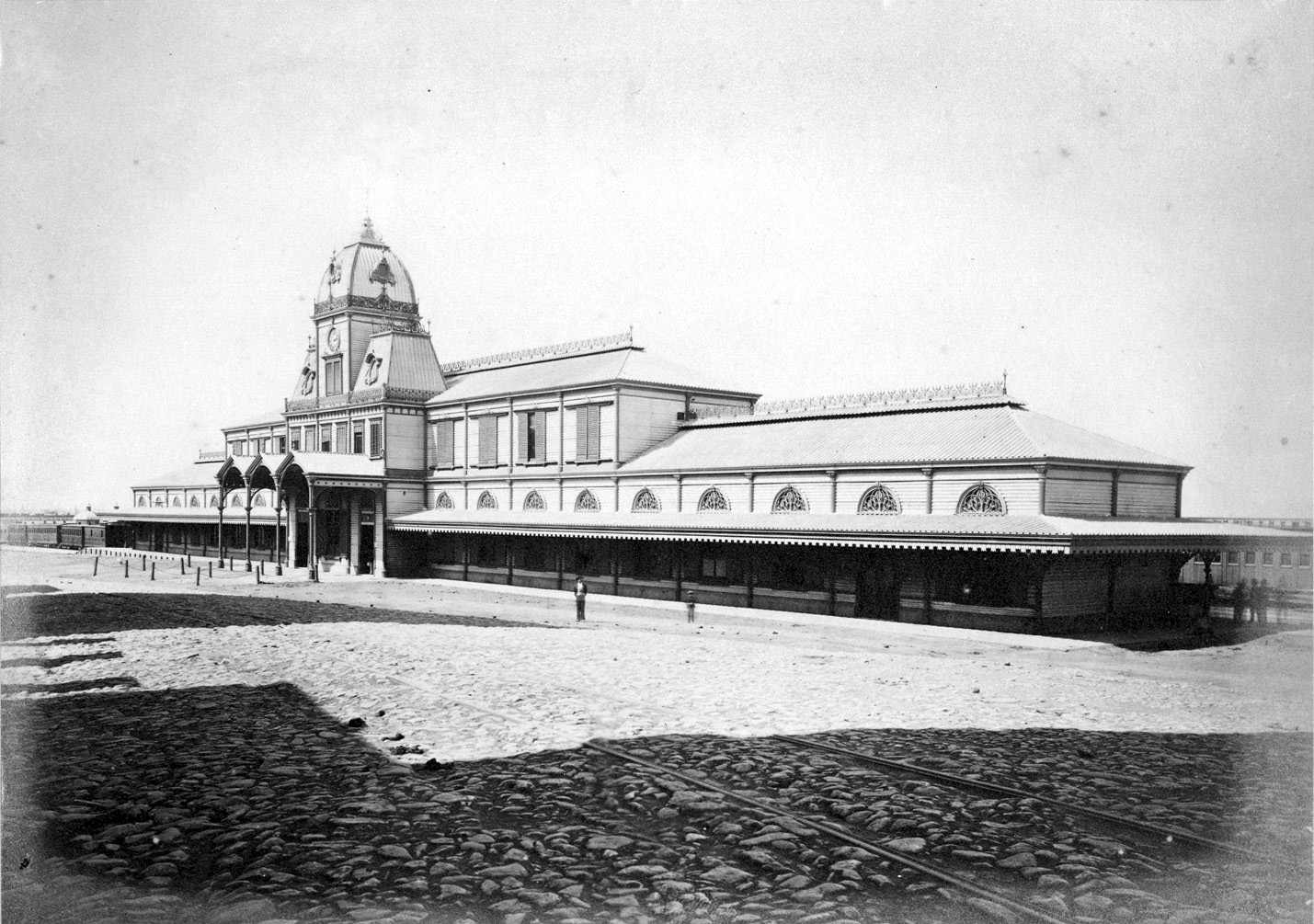 Buenos Aires Central Station. It was the terminal station of Ferrocarril Buenos Aires al Puerto de la Ensenada (Buenos Aires & Ensenada Port Railway). The station was placed on Av. Paseo de Julio (today Av. Leandro N. Alem) and Bartolomé Mitre. Opened in 1878, it was destroyed by fire on February, 1897. [1]